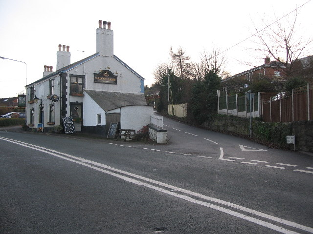 The Calcot Arms. The Calcot Arms public house is located at the junction of Milwr Road (right) and the A5026 (foreground). This latter road used to be the main A55 route into north Wales prior to the construction of the A55 Expressway.